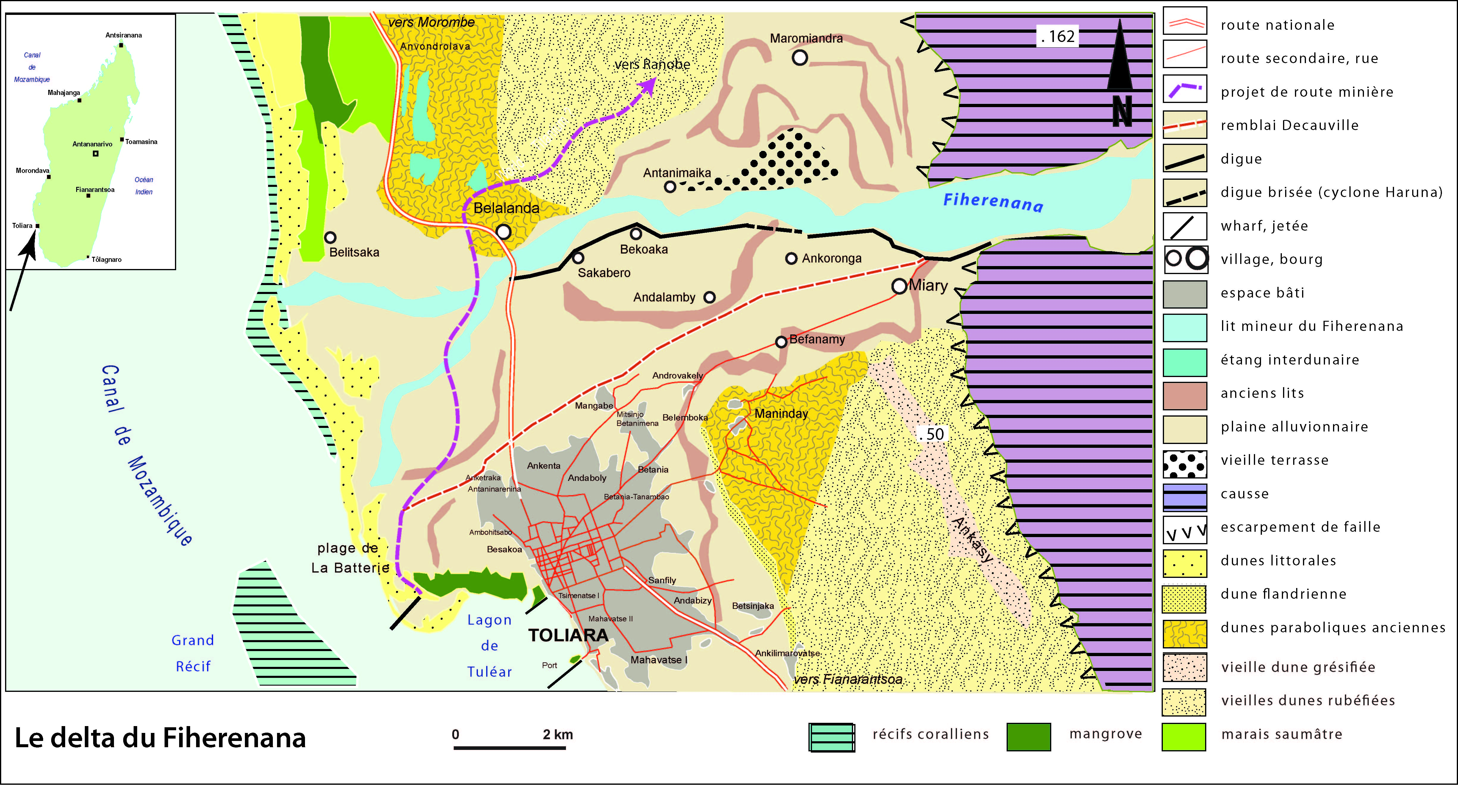 Map of the Fiherenana delta, South-West Madagascar